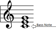 Picture Showing the Bass Note of a C Major Triad.